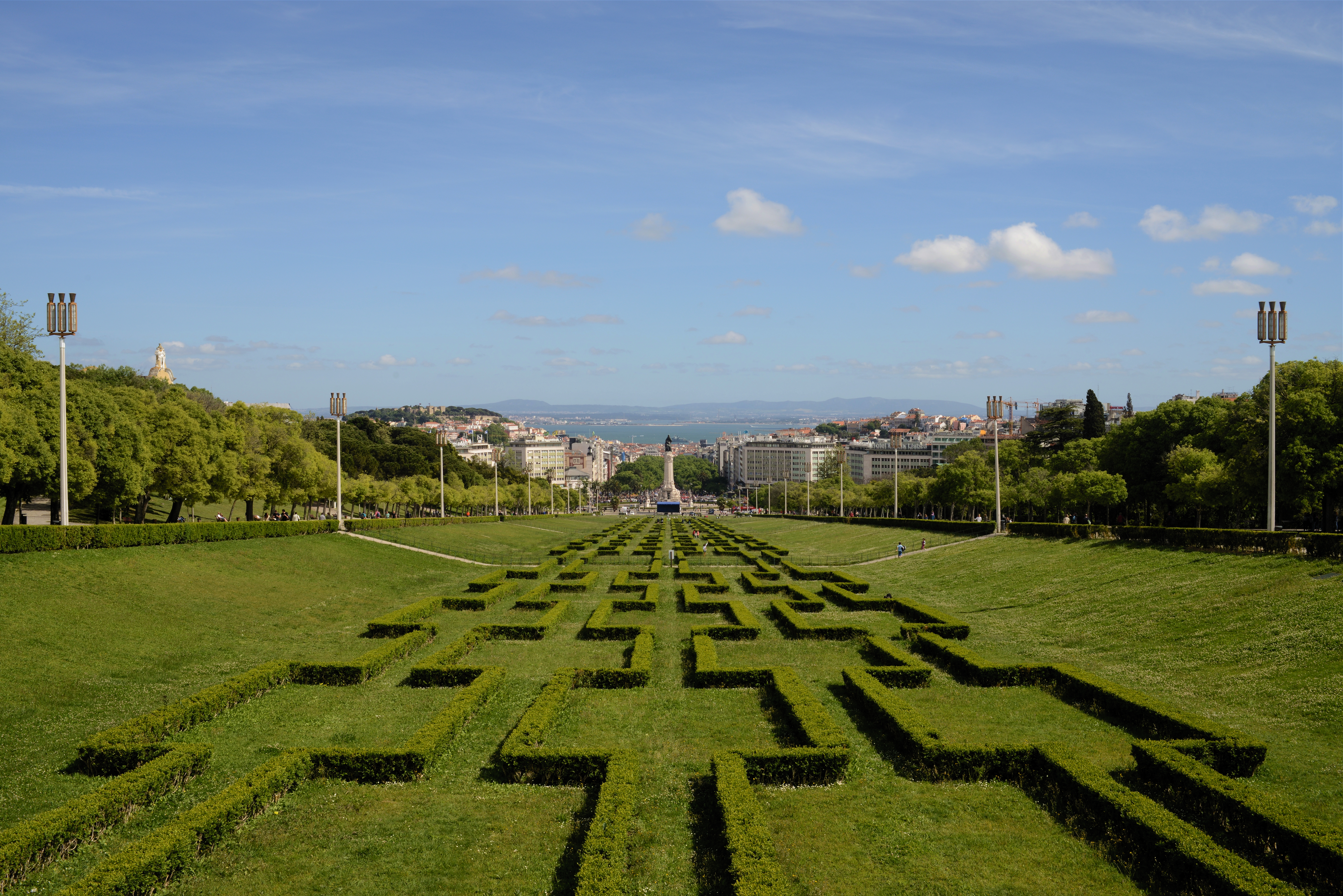 Park Eduardo VII. Lisboa, Portugal.